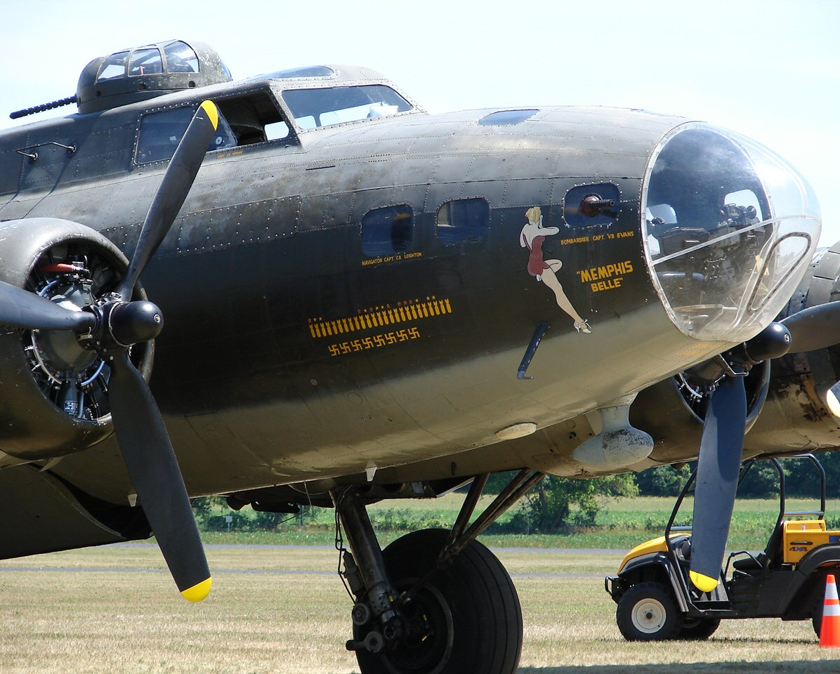 This B-17 is based out of Geneseo, NY and is "Memphis Belle" She is the sister ship to the original Belle that is residing in Memphis Tennessee.